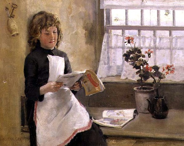 In A Cottage By The Sea